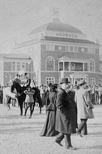 U.S. president Grover Cleveland (foreground) walks past the Georgia Building at the 1887 Piedmont Exposition, held in October at Atlanta's Piedmont Park.